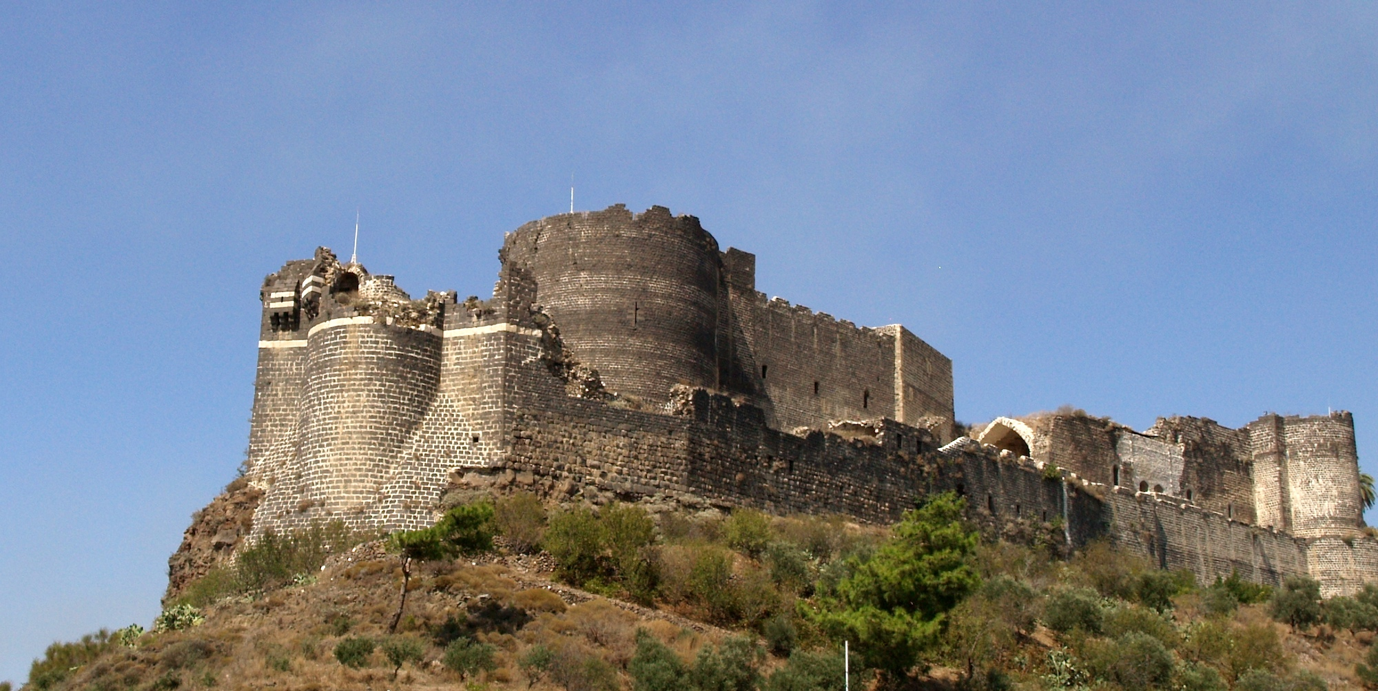 Qalat Marqab / Margat Castle. A Crusader castle in Northern Syria.